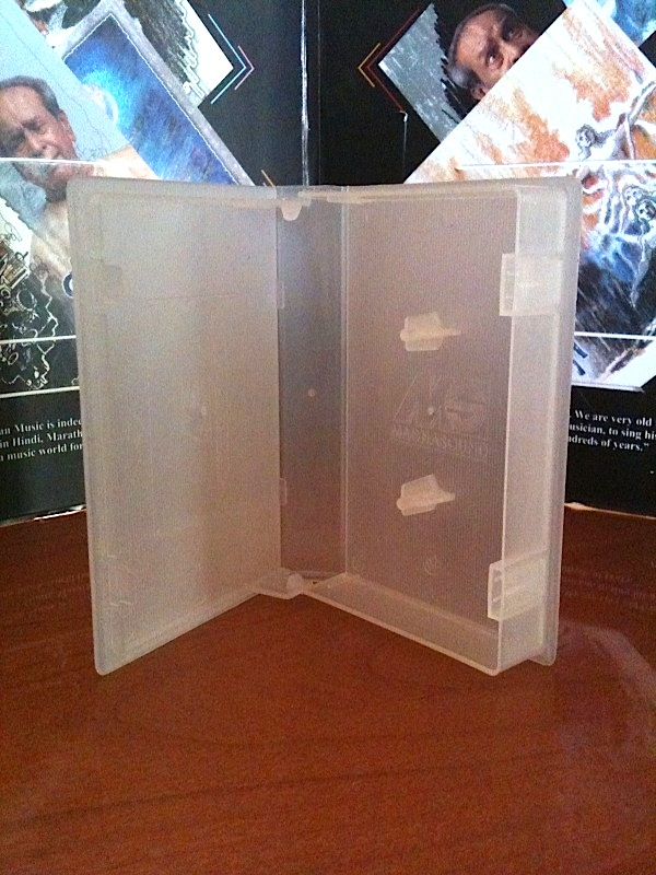 International Cassette Box innovated by Magnasound